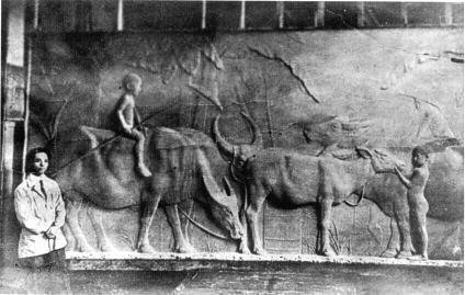 Huang Tushui and his work "Water Buffaloes"